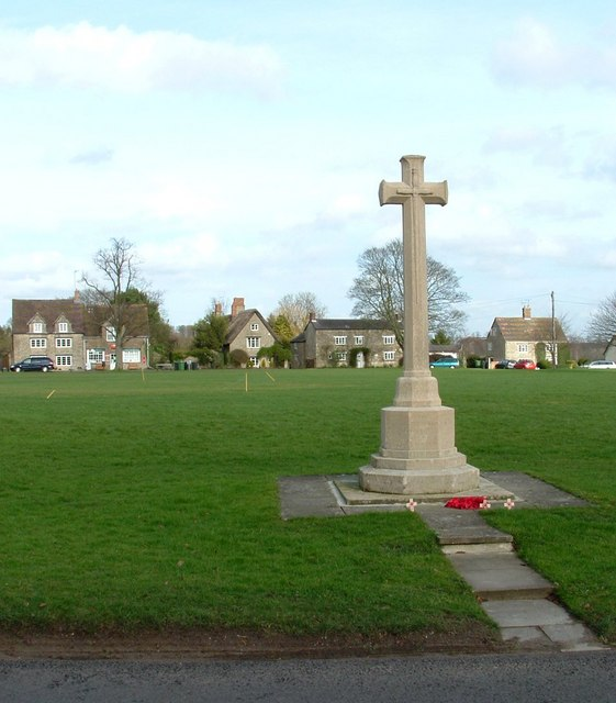 Evenley Memorial Evenley Memorial on the Village green